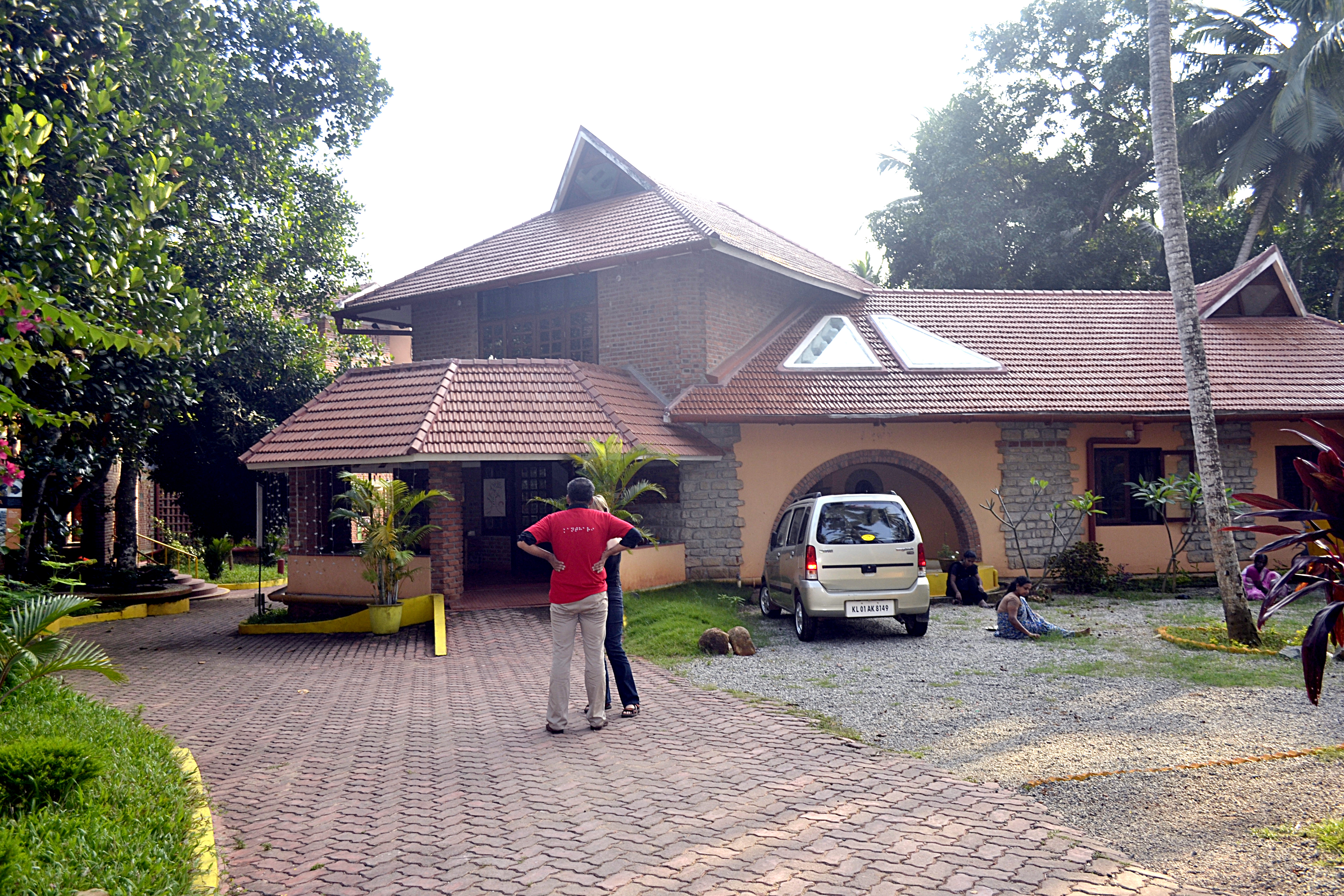 kanthari international, an alternate school to train and develop people with special needs into self-motivated social entrepreneurs, is housed in a beautiful campus near the city of Thiruvananthapuram, the capital of Kerala , India